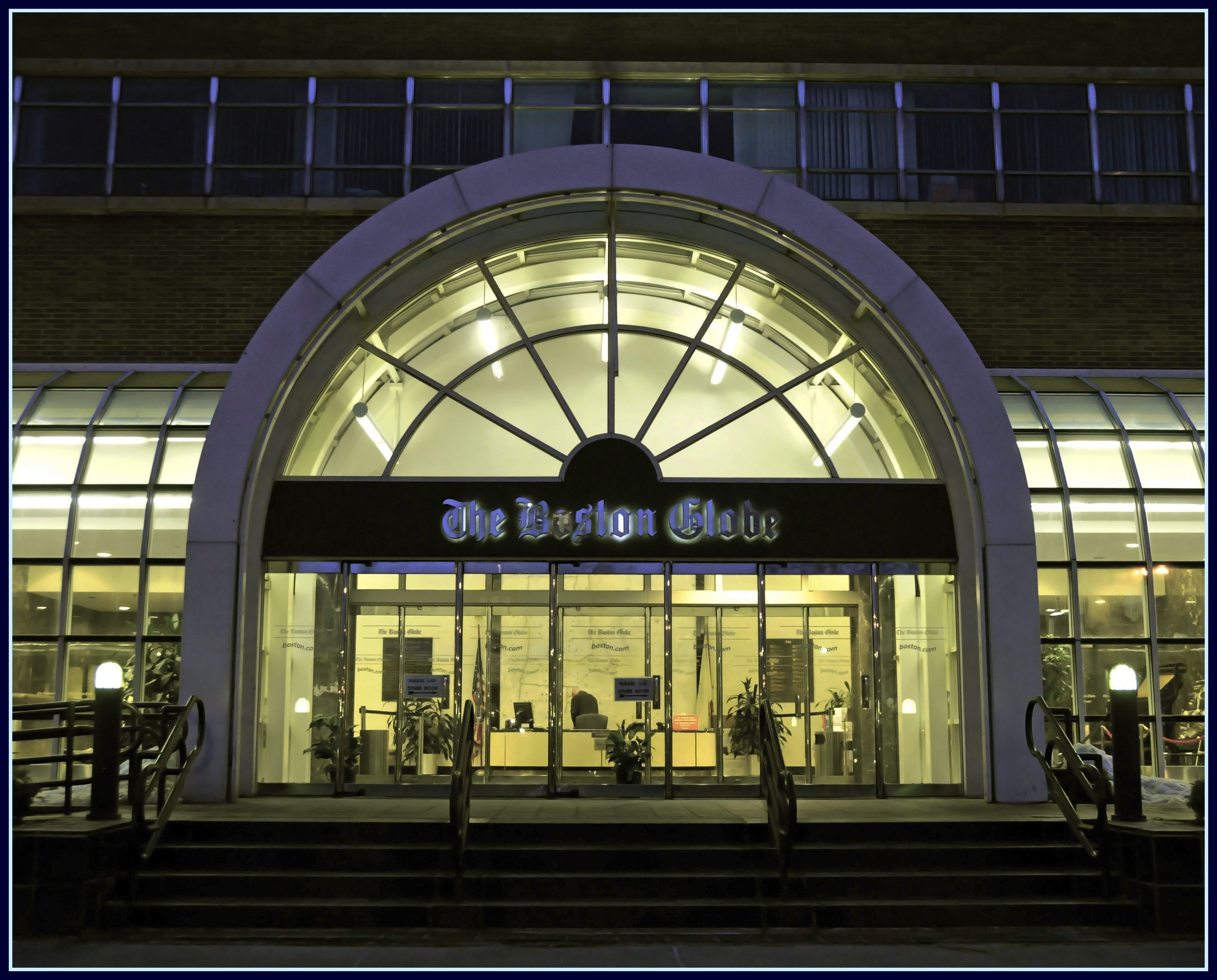 The Boston Globe building